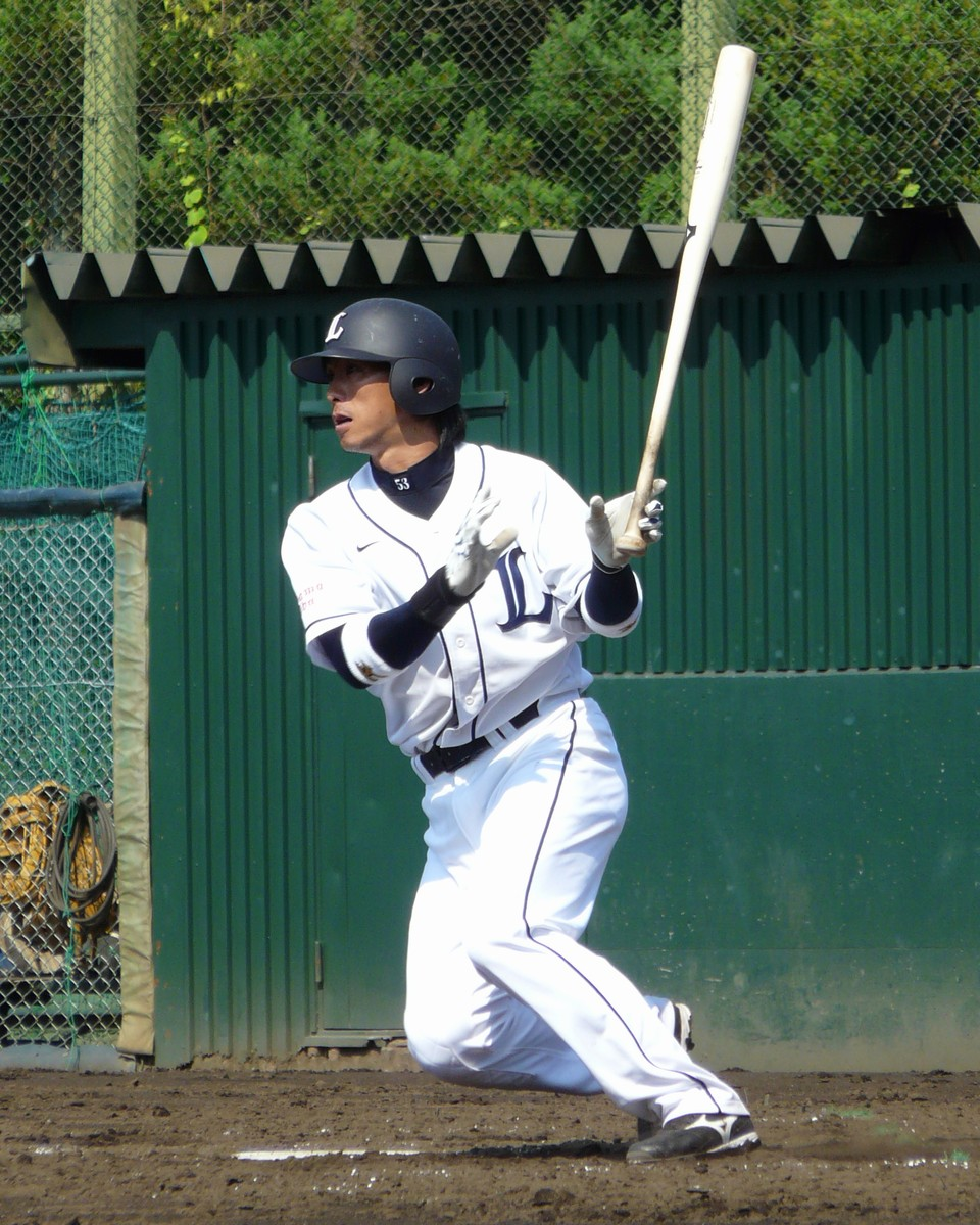 Taka Miura, infielder of the Saitama Seibu Lions, at Seibu Lions Baseball Ground 2.